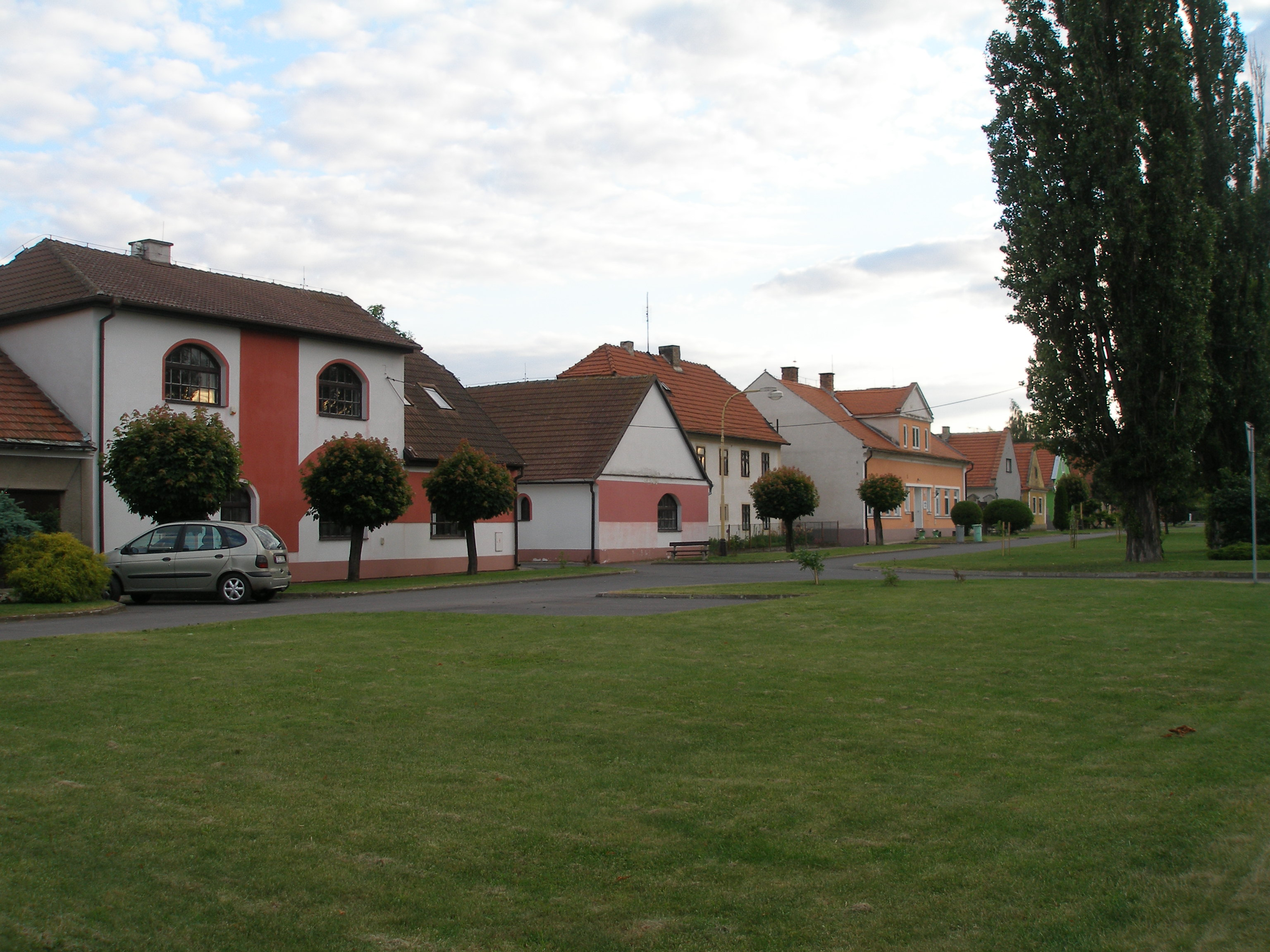 Sothern side of the square in Račetice